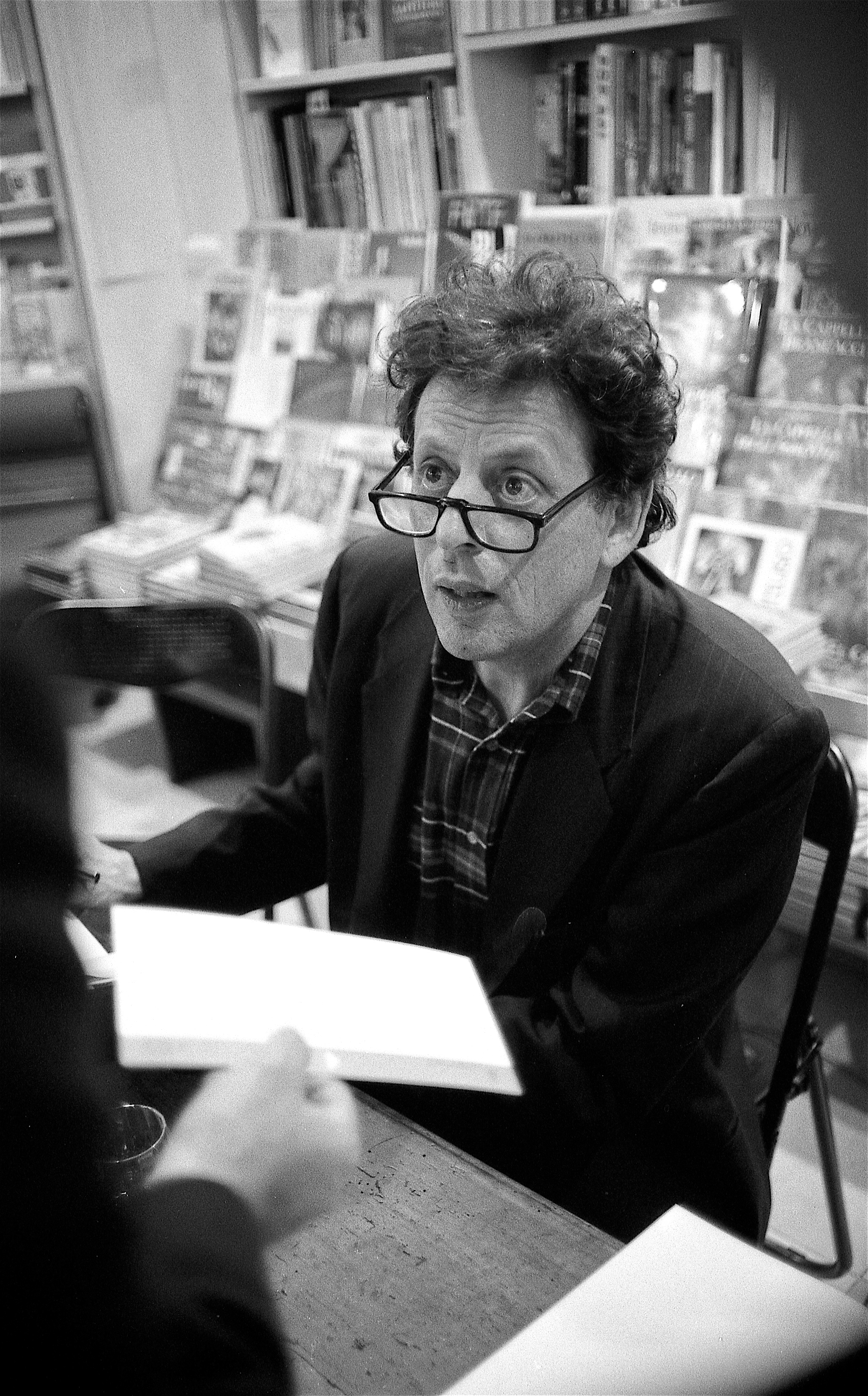 Composer Philip Glass, Florence 1993Philip_Glass_018